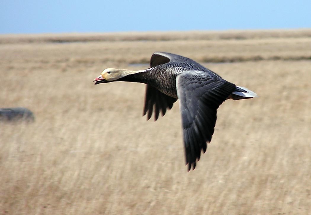 Emperor Goose (Anser canagicus) in flight